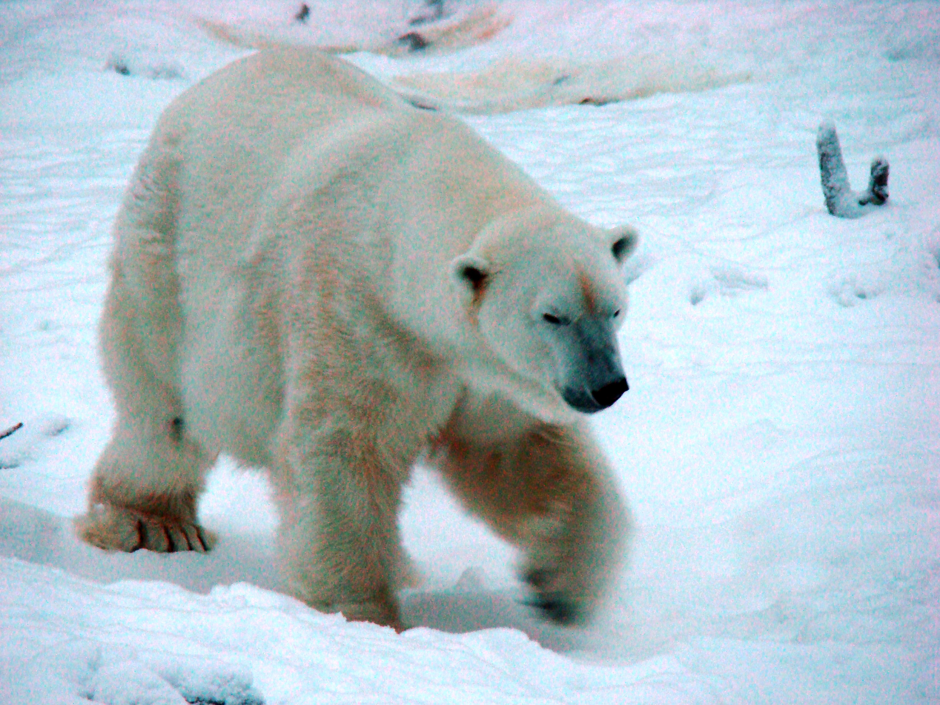 Polar bear in the Ranua Zoo, in Ranua, Finland.